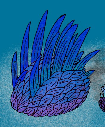 Cropped image of taxon in file name